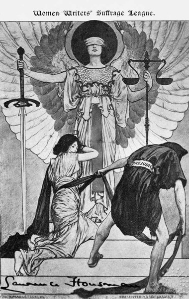 "Postcard, printed, cardboard, monochrome image, black text, white border along top edge, image of a mythical blind-folded woman with wings, holding a sword and scales, woman kneeling at her feet, man pulling woman away from her feet, inscription on man's belt: 'PREJUDICE', printed inscription front: 'Women Writer's Suffrage League', manuscript inscription front: 'Lawrence Housman', manuscript inscription reverse: 'Wishing you & Jack everything that is good in 1910. Treasure this as it is signed by that splendid Suffragist & literary genius. Lawrence Housman. Jean. Mrs. ? Alexander'." Description cited from